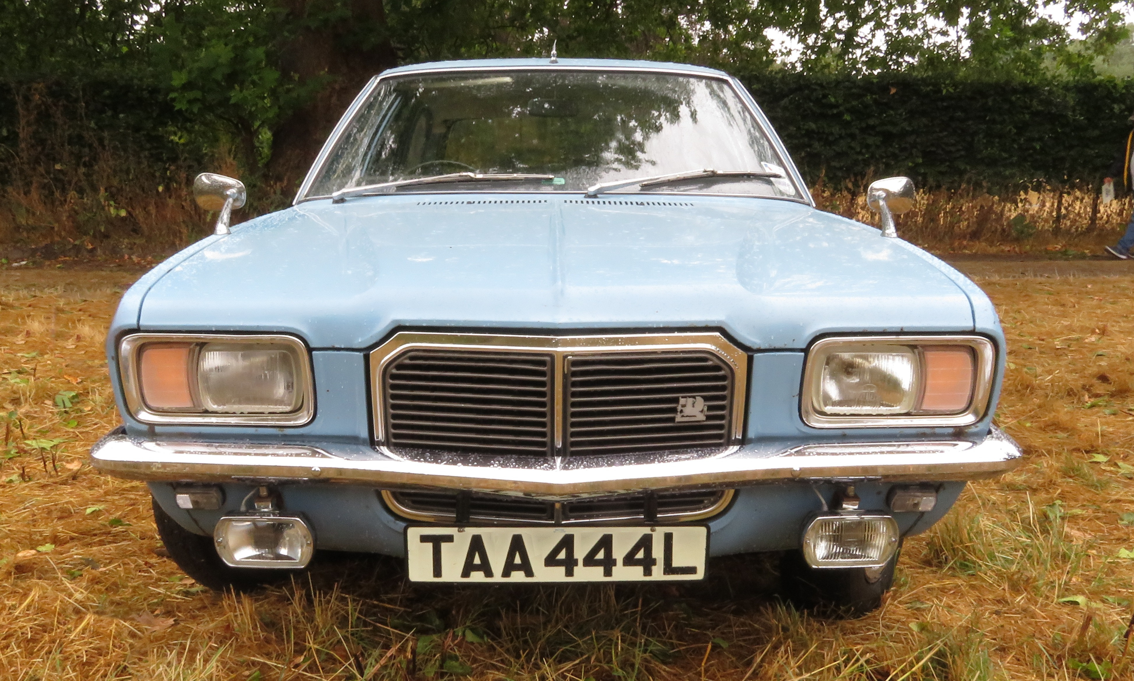 Vauxhall Victor FE estate (1972) at Ingatestone (2018)